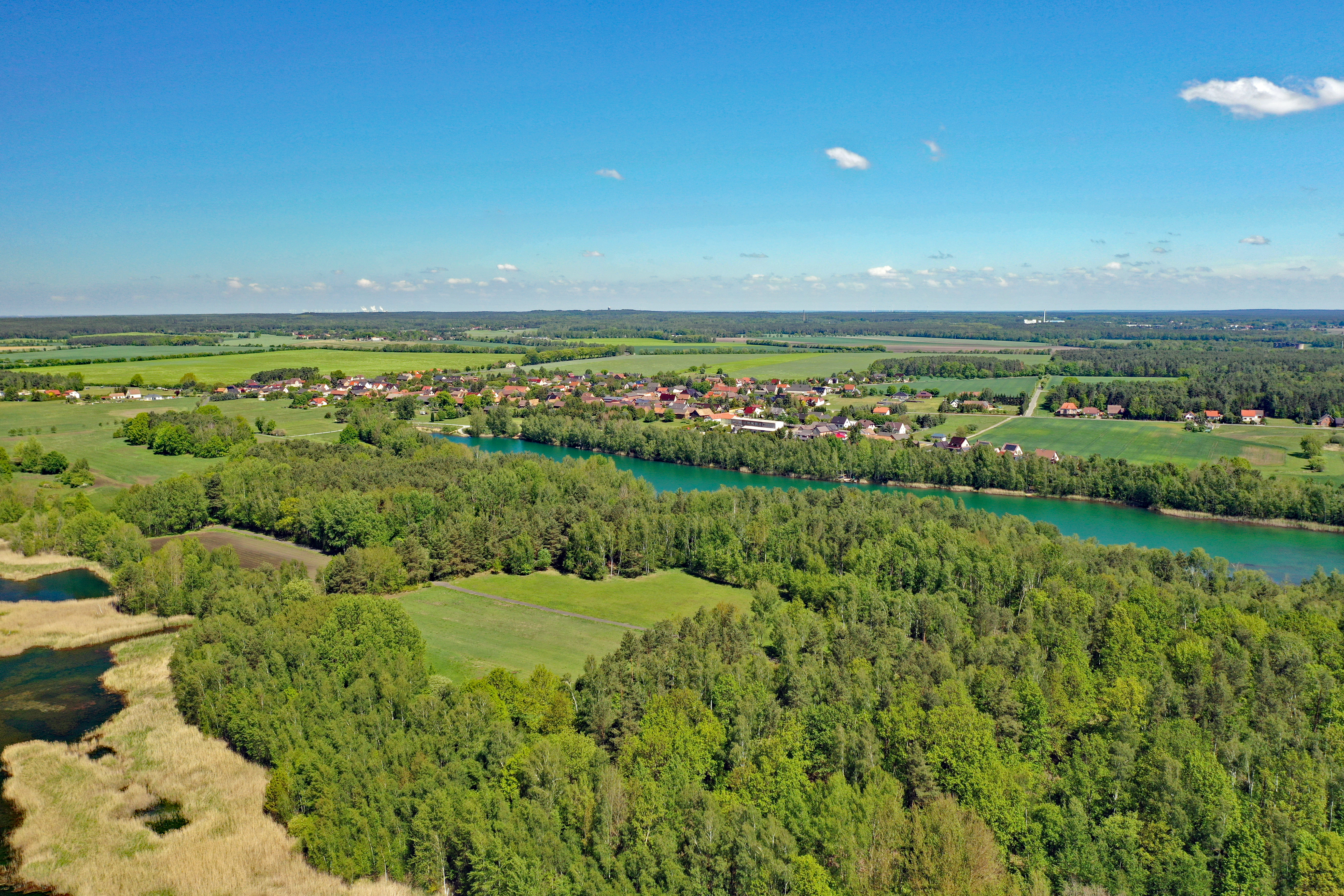 Halbendorf (Groß Düben, Saxony, Germany)